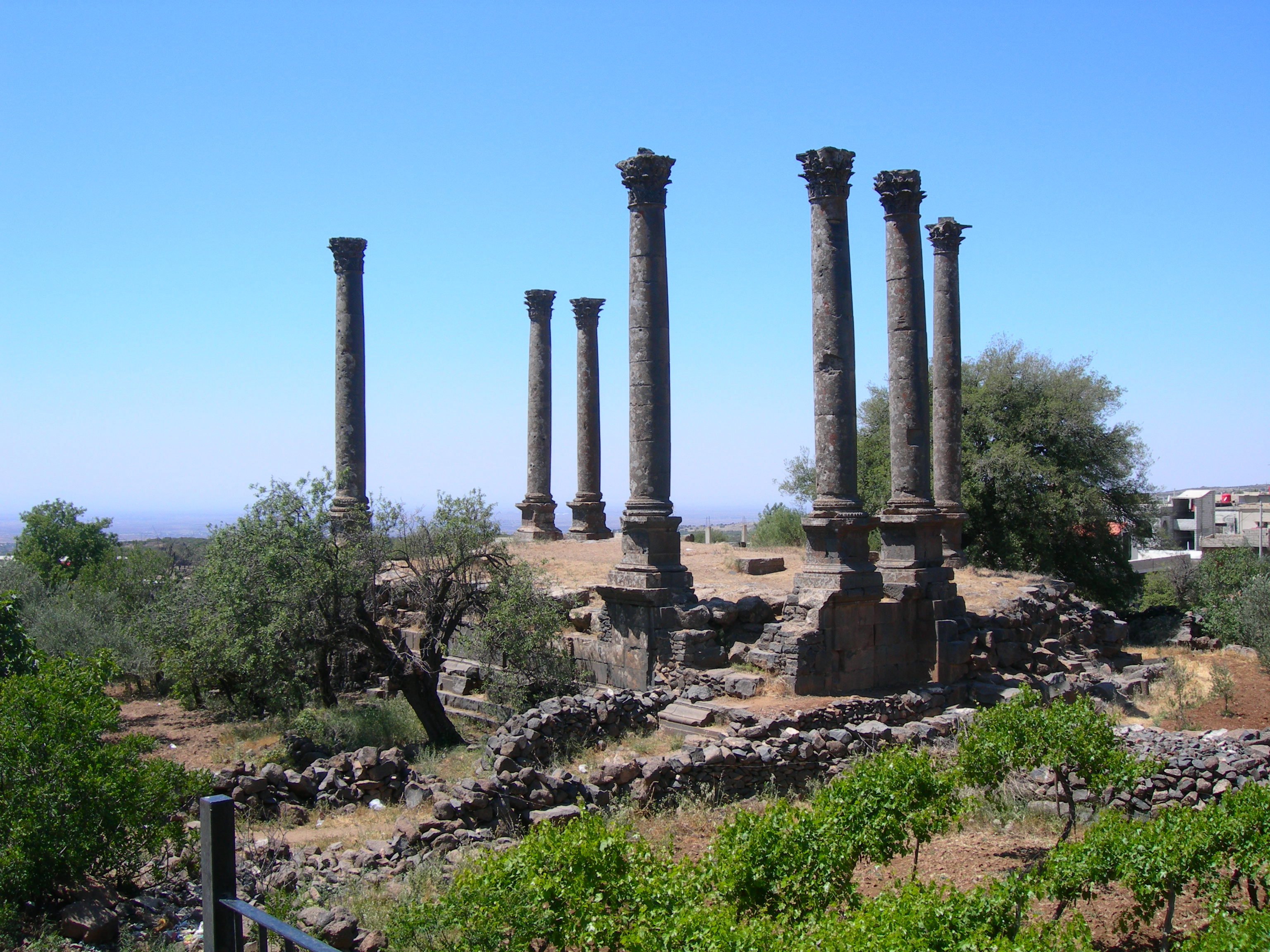 Temple of Rabbos, Al Quanawat in 2008